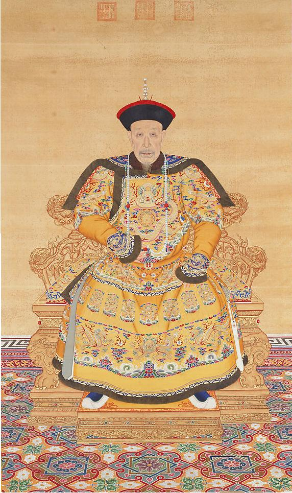 Qianlong Emperor in his late years